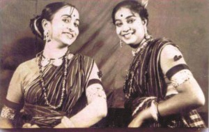 Rawshan Jamil with her sister Alpana Mamtaz performing in the dance drama Kanchan Mala, directed by Gowhar and Rawshan Jamil in 1962